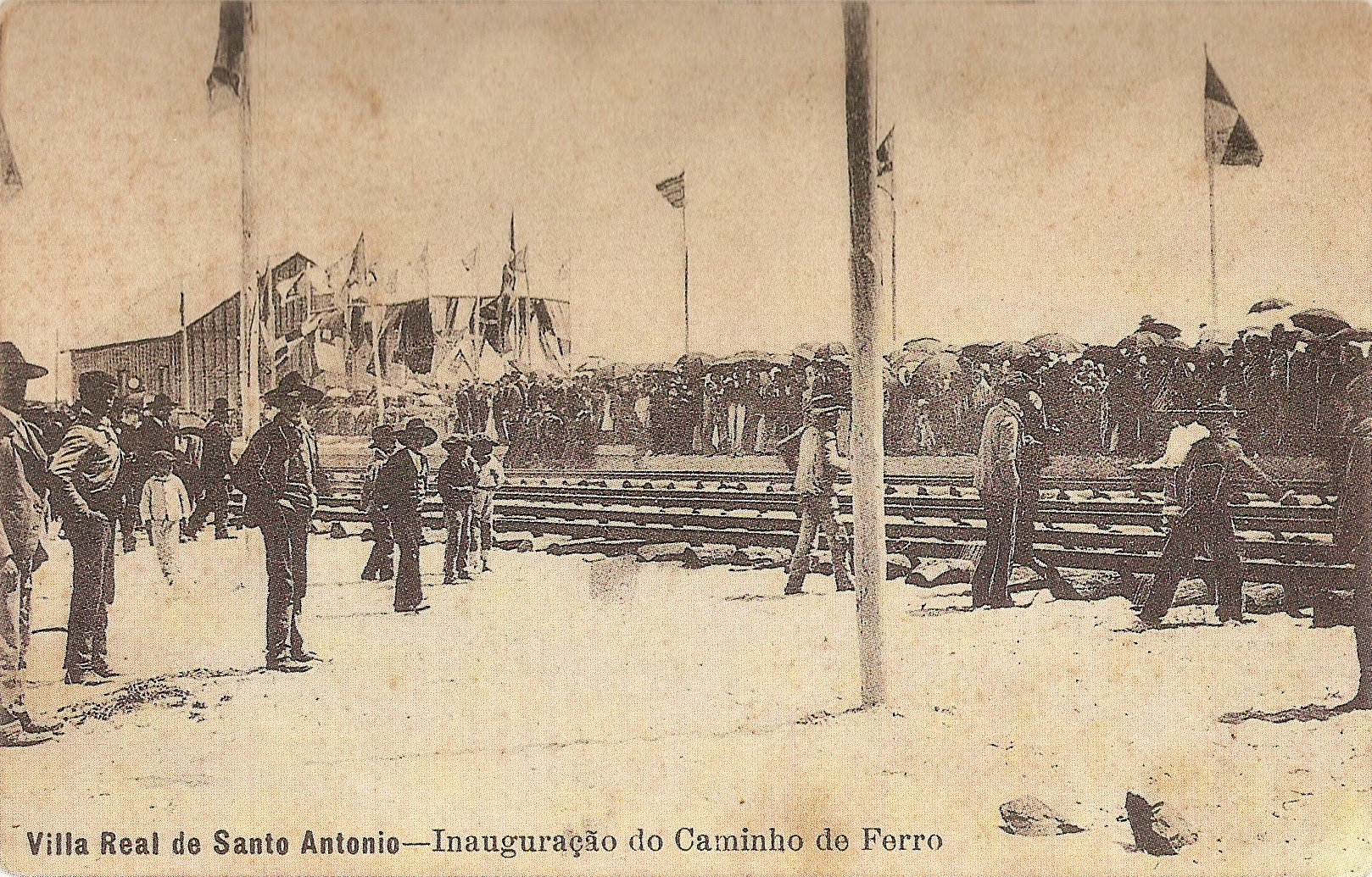 Postcard showing the inauguration of the first train station in Vila Real de Santo António, in Portugal, in the 14th of April 1906. This postcard was published by J. Vianna, in the Arsenal Street, in Lisbon.